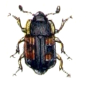 Ipidia binotata, from Calwer's Käferbuch, Table 13, Picture 26. Taxonomy was updated to 2008, using mostly the sites Fauna Europaea and BioLib. Please contact Sarefo if the determination is wrong!